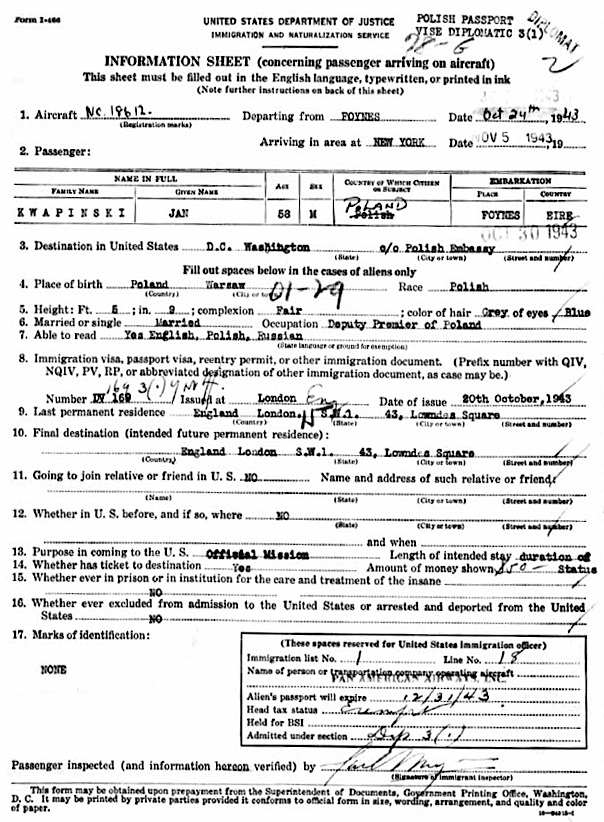 copy of NYC landing paper for Polish diplomat Jan Kwapiński